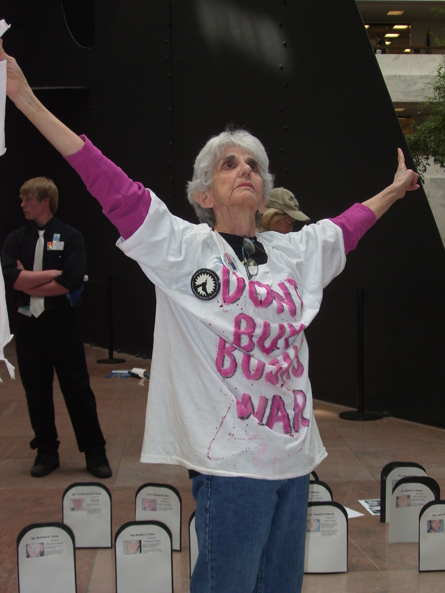 Eve Tetaz at an anti-war protest inside the Hart Senate Office Building, march 2007. By Lori Perdue. The photographer gave permission for its use.